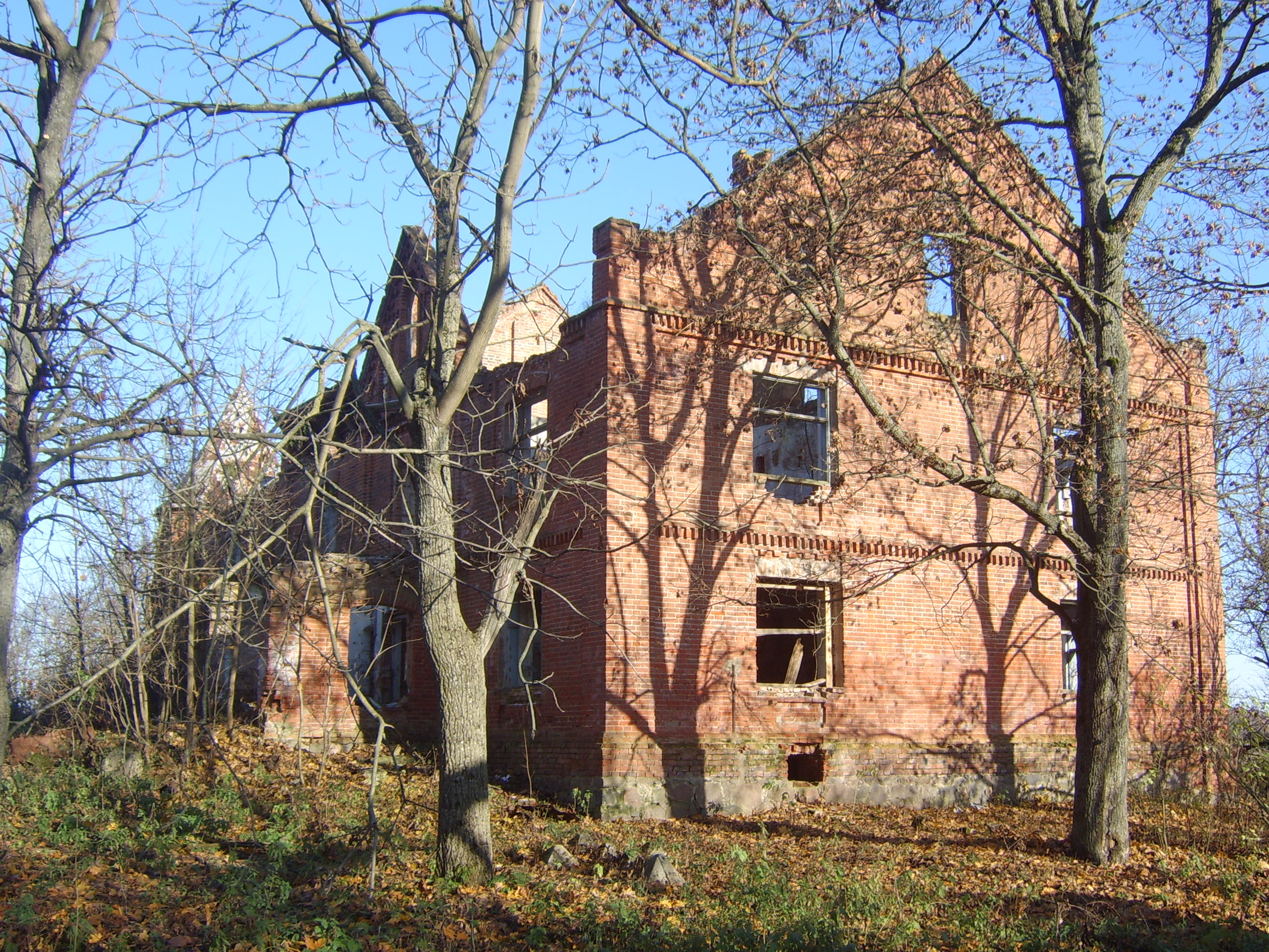 Łaškievič Estate, Stajki village, Baranavičy district